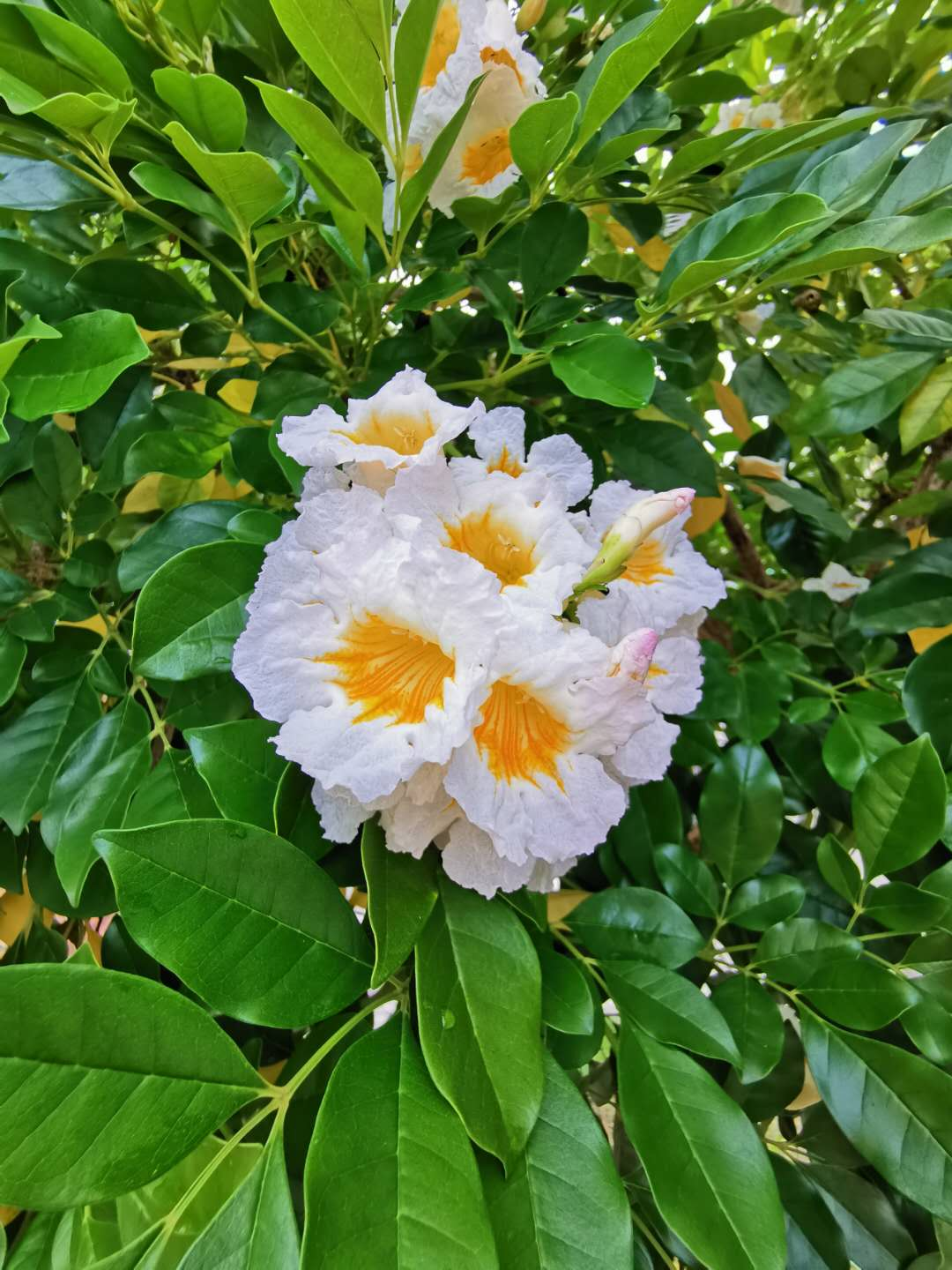 Radermachera, Taichung, Taiwan.